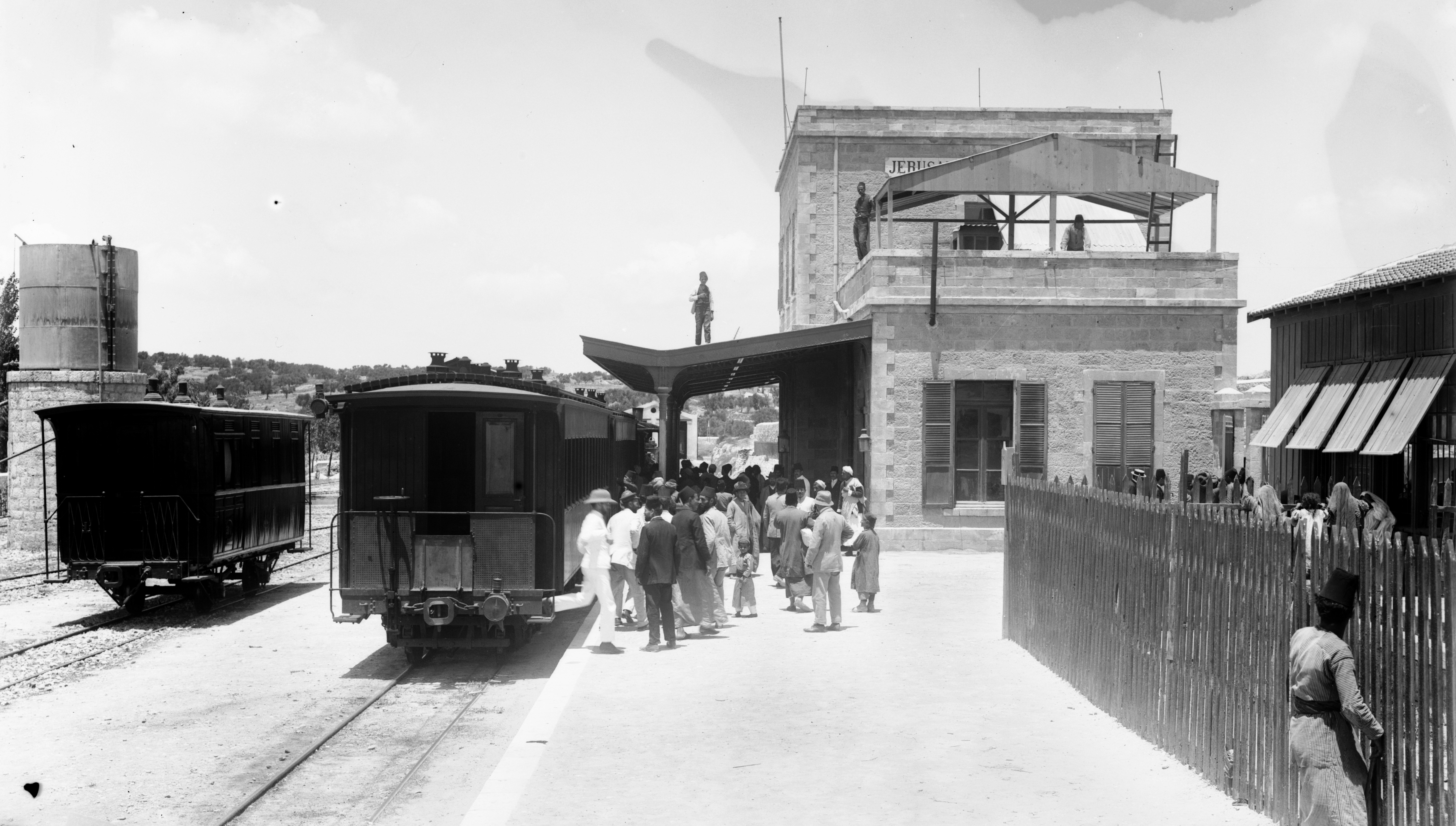 Jerusalem (El-Kouds). The railway station Inscription: The Railway Station, Jerusalem. 15 la gare